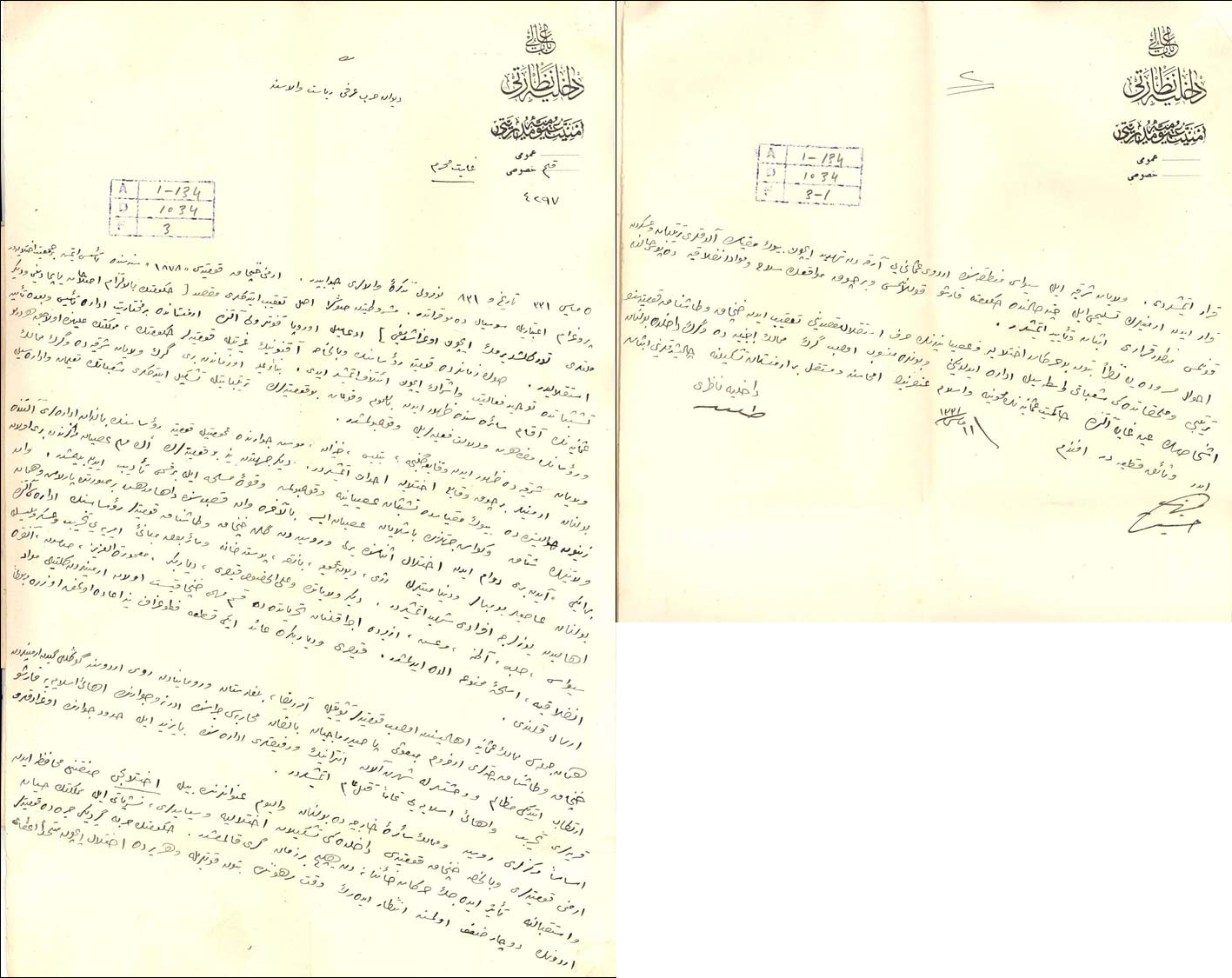 Mehmed_Talat to the Presidency of the Martial Law Court regarding why the Image:Instruction of the Ministery of the Interior on april 24.png was issued and as a result Armenian notables deported from the Ottoman capital in 1915